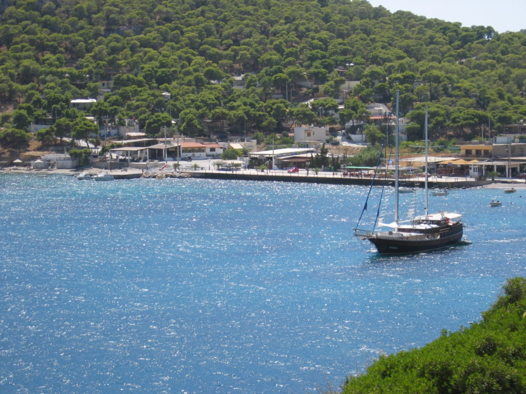 Another view of Kaki Vigla Beach